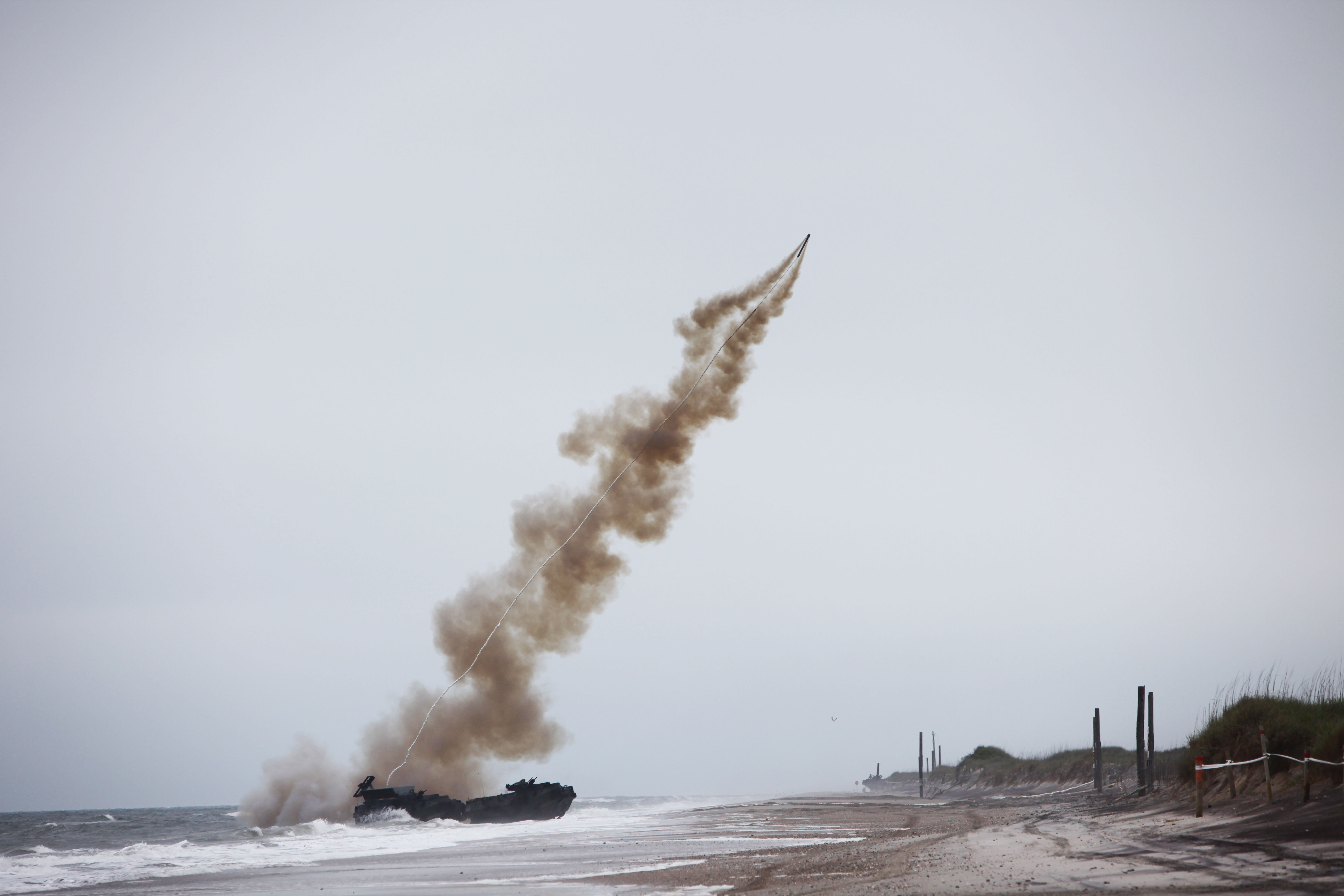 CAMP LEJEUNE, N.C. (May 19, 2010) An amphibious assault vehicle assigned to the 2nd Amphibious Assault Battalion fires a line charge at Camp Lejeune, N.C. A line charge is composed of more than 1750 pounds of explosives and is used to clear beachhead entries during an amphibious assault. (U.S. Marine Corps photo by Lance Cpl. Brian A. Kinney/Released)